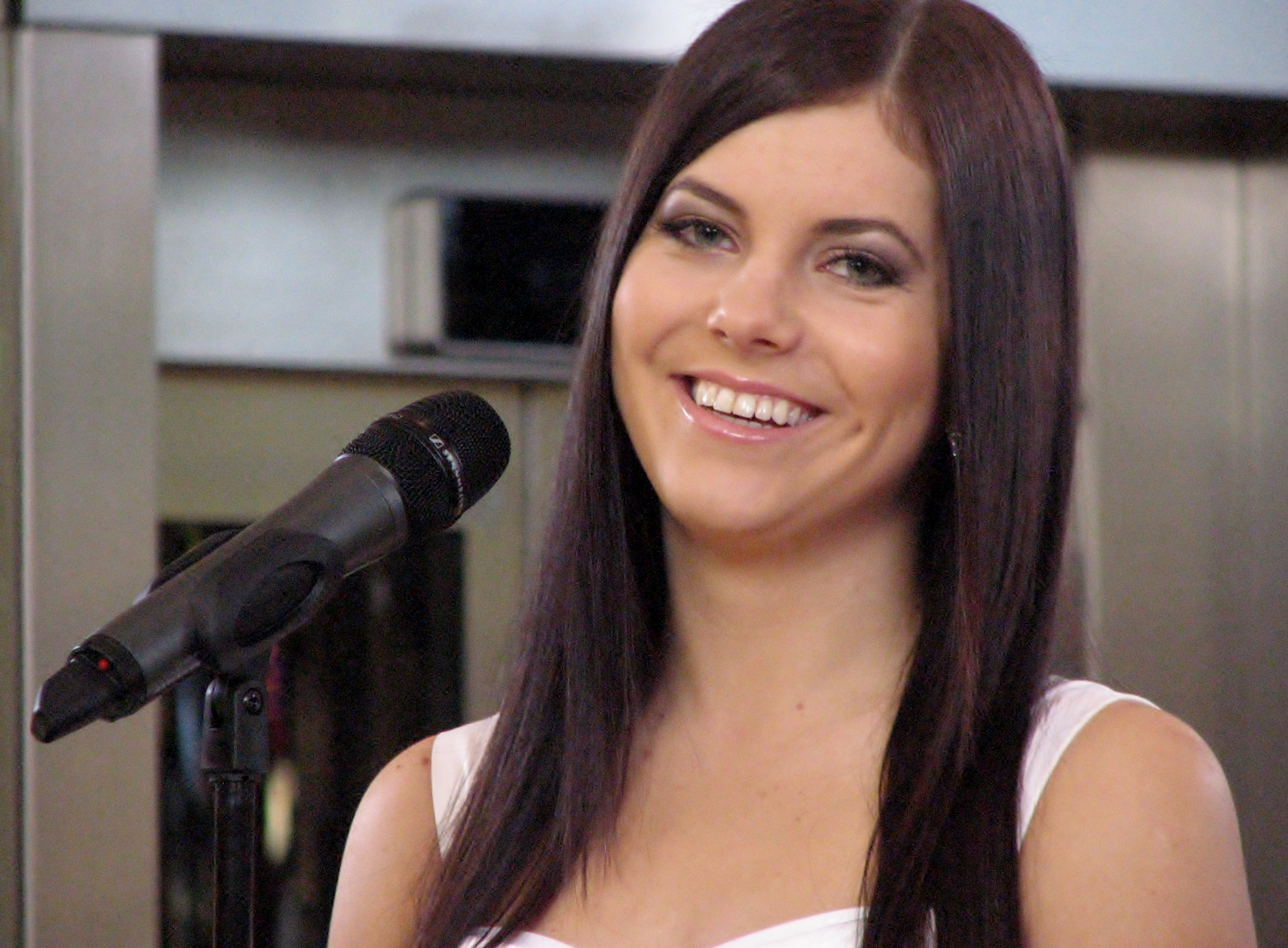 Estonian singer Birgit Õigemeel in Solaris centre